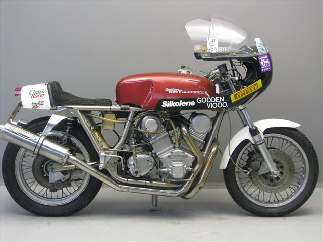 Godden-Métisse 1000 cc motorcycle